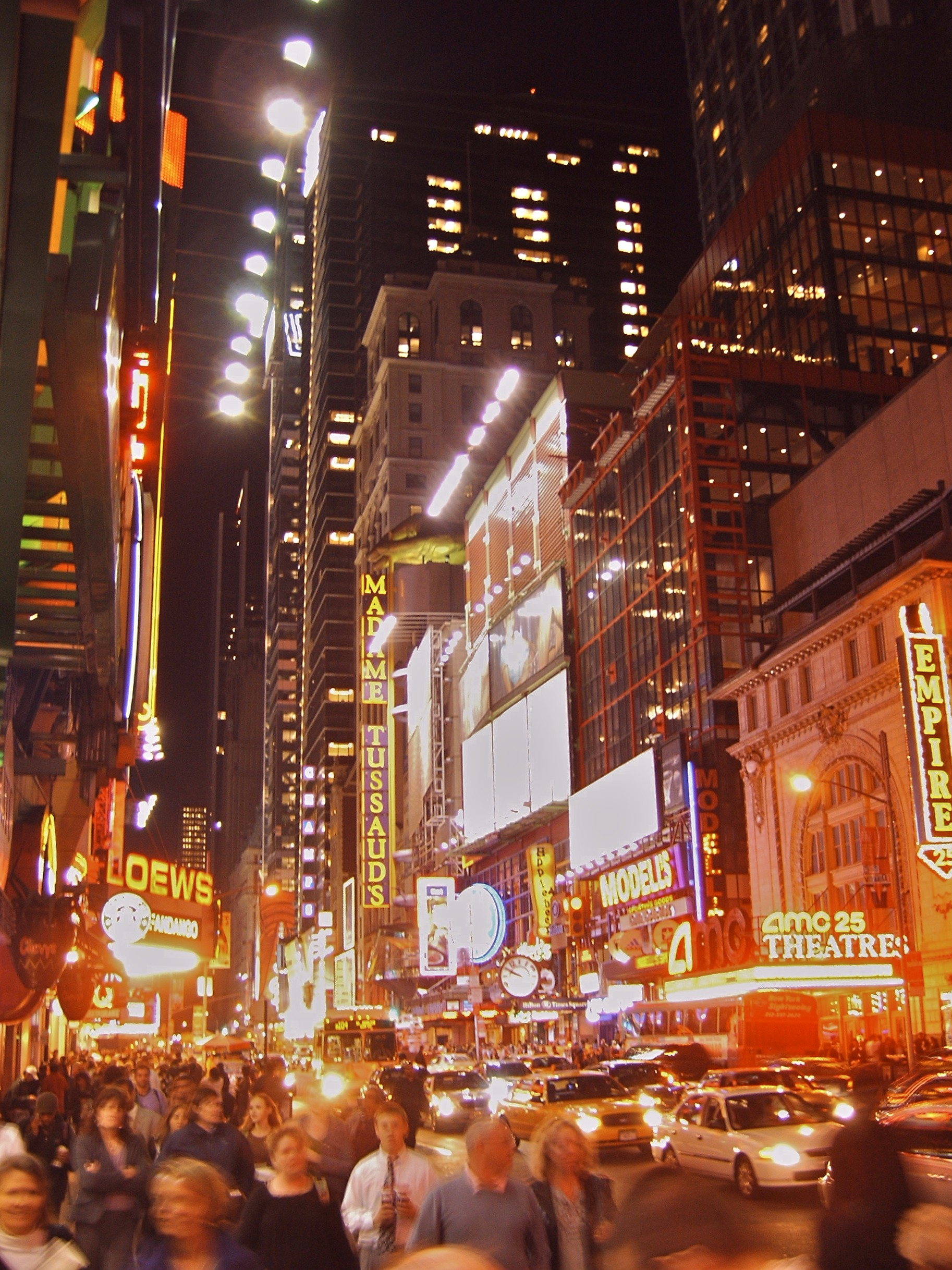 A night photograph of 42nd Street near Times Square in New York City.